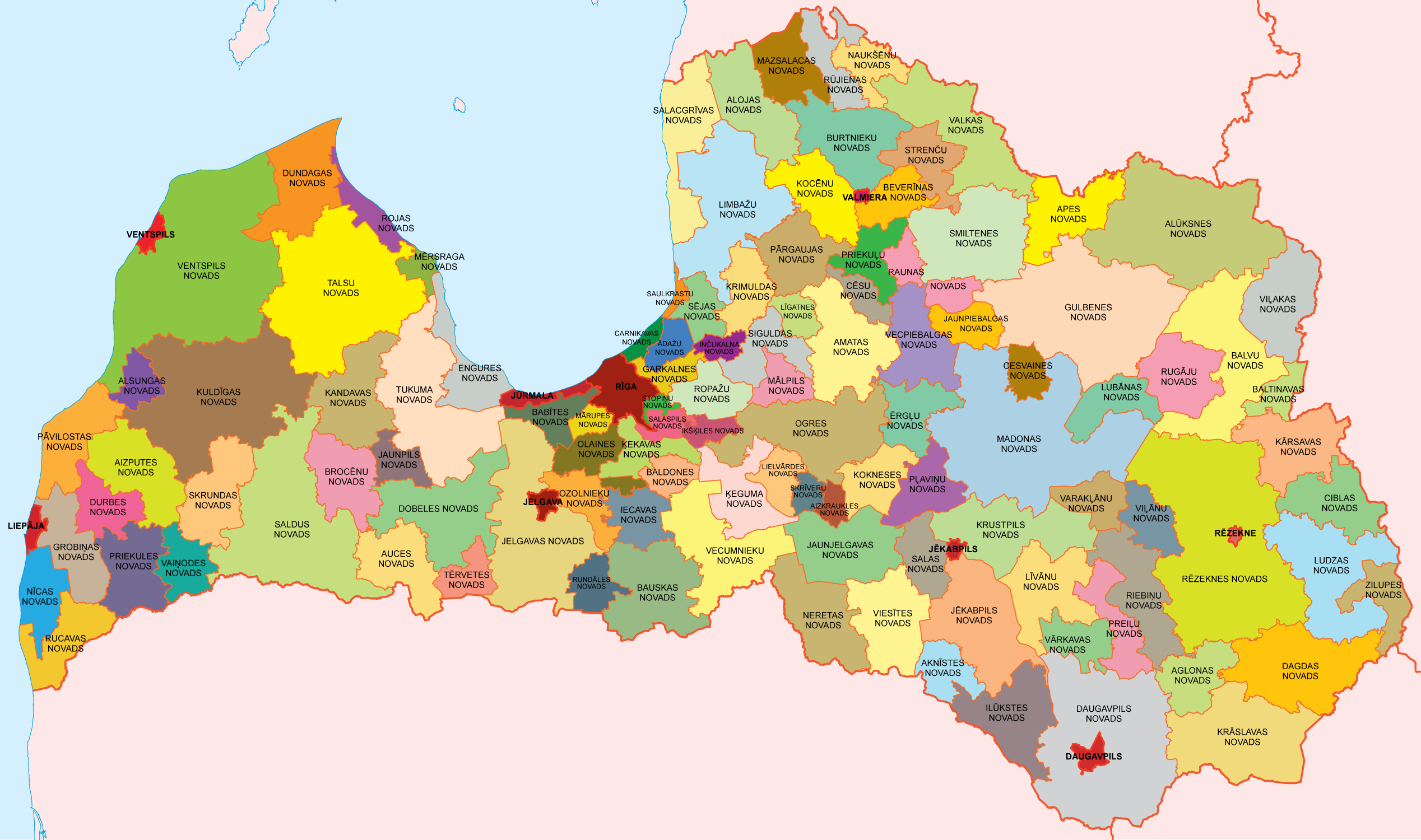 Administrative divisions of Latvia 2009